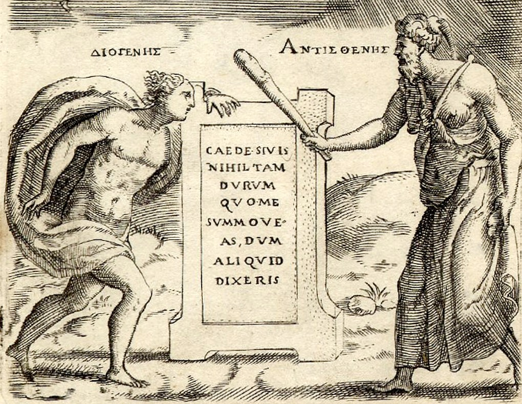 Detail of plate 35, from Achillis Bocchii Bonon, Symbolicarum quaestionum de Universo genere quas serio ludebat. Print made by Giulio Bonasone. Scene shows Diogenes leaning on a tablet and Antisthenes holding a club in his right hand. Inscription reads "caede sivis nihil tam durum quome summove as dum aliquid dixeris" which seems to translate as "strike if you want, nothing is so tough to drive me away, as long as you have something to say".